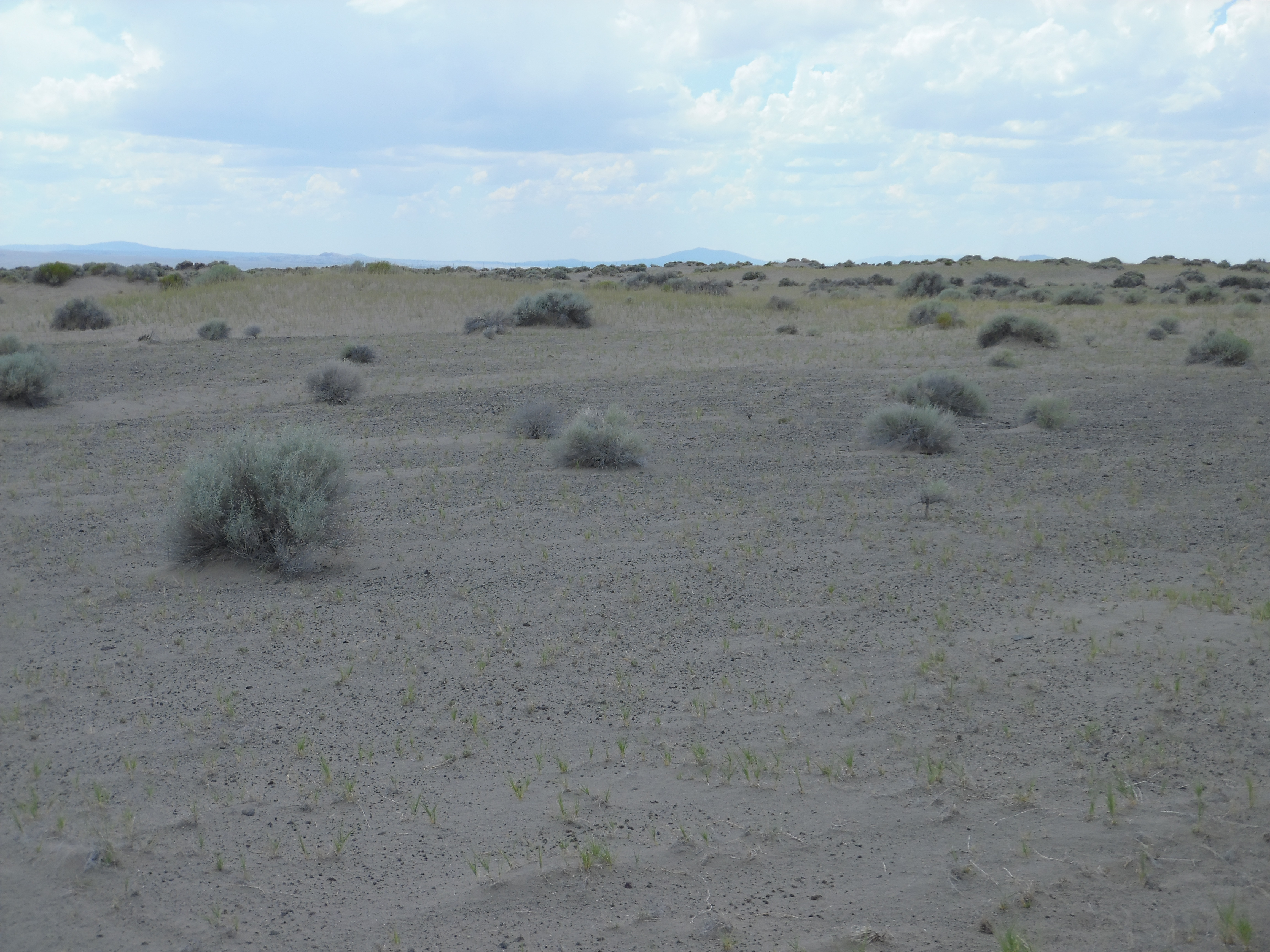 High desert landscape at Fossil Lake in northern Lake County, Oregon